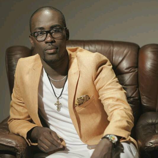 Bro. Philemon, Gospel Singer and Ghana Gospel Industry Award Winner